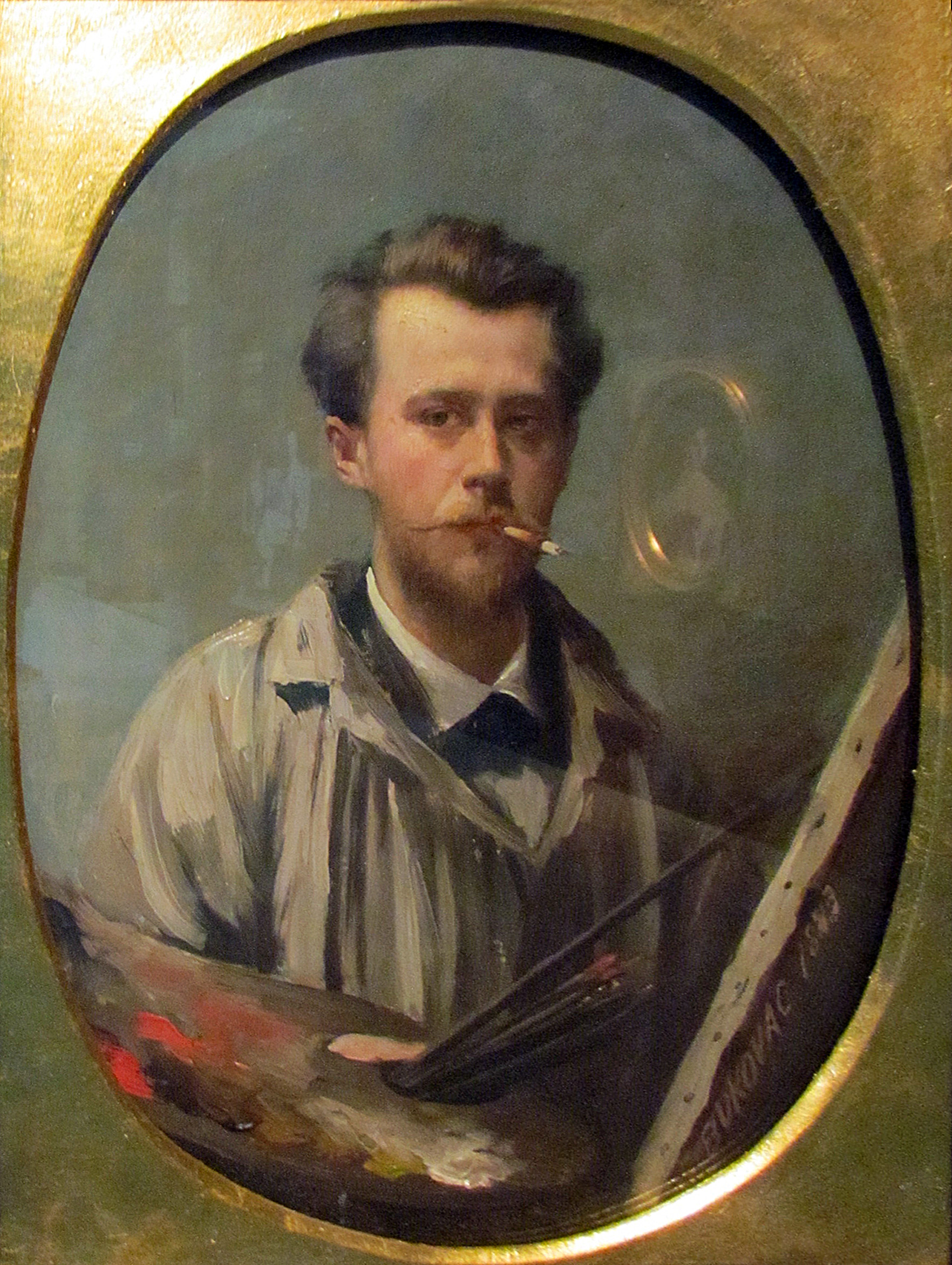 Vlaho Bukovac Serbian painter, self portrait 1883, National Museum of Serbia